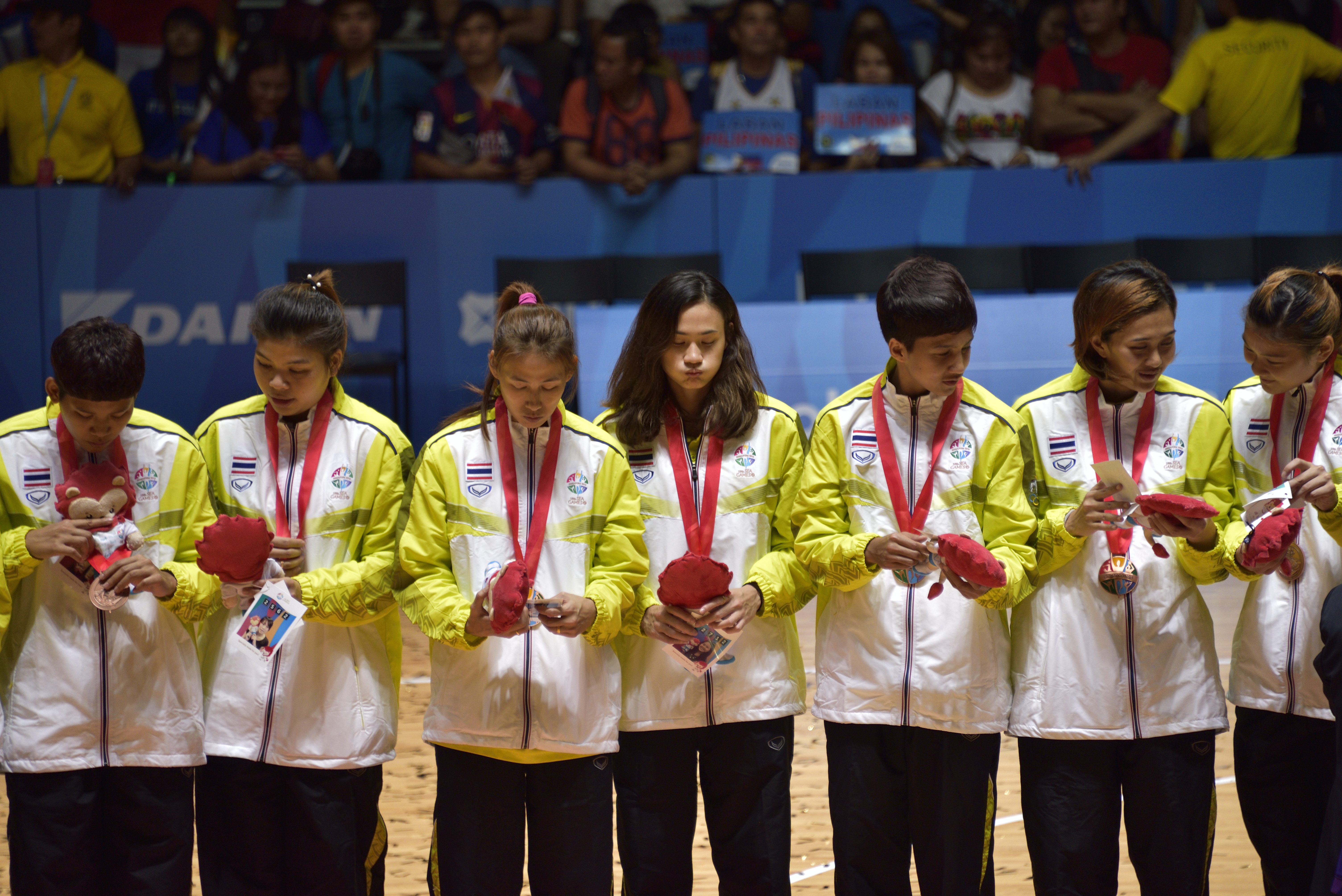 The Thai women's national basketball team wearing their bronze medal.